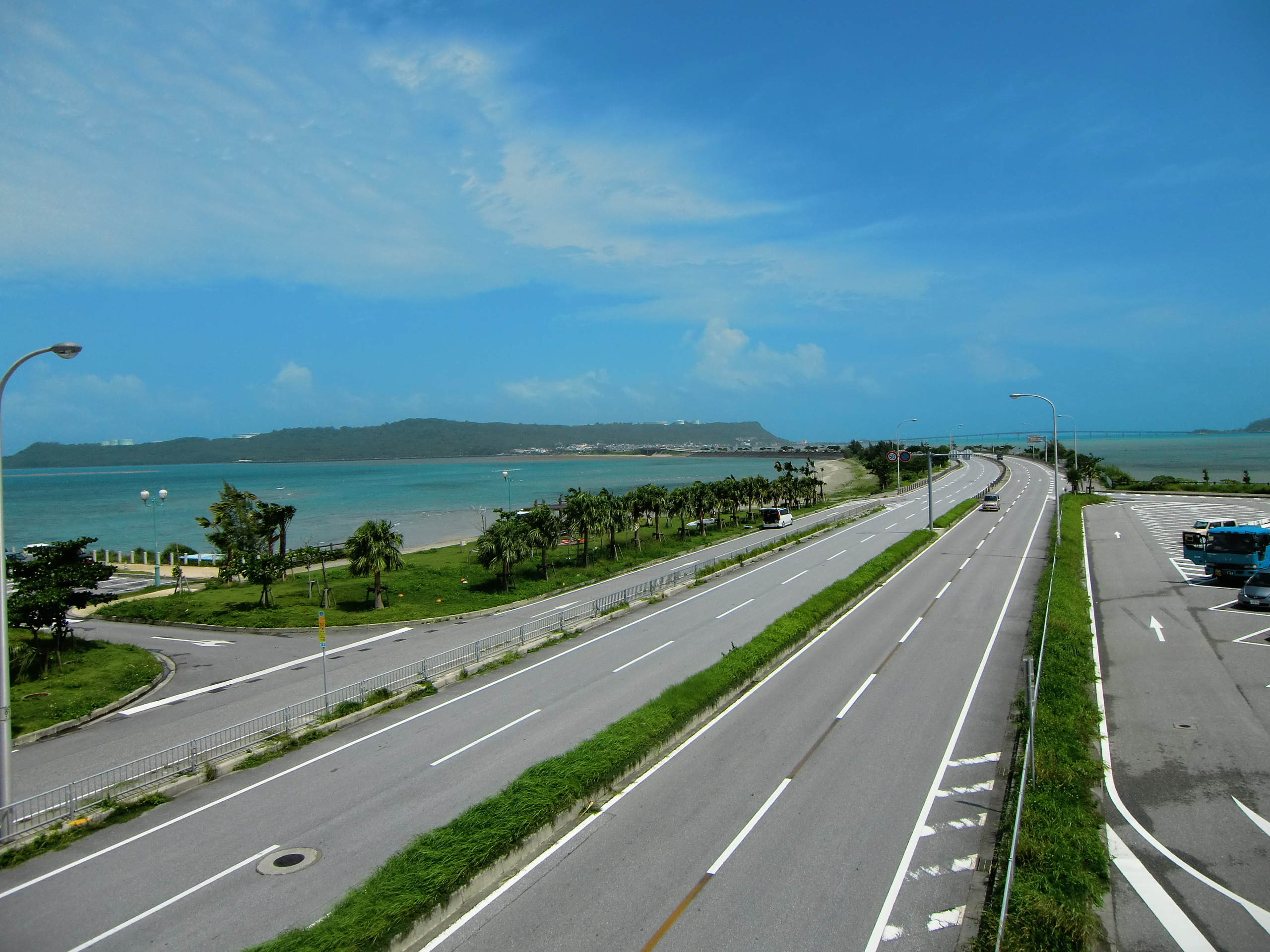 Kaichu-Doro(Road through the Sea)